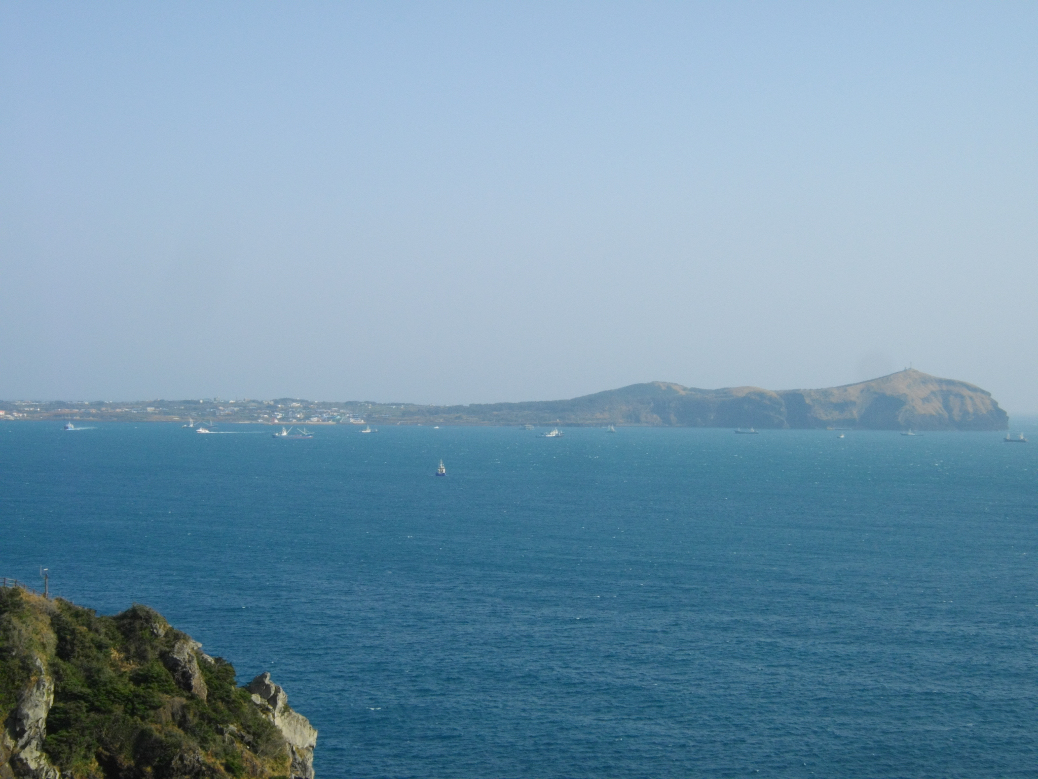 Udo Island